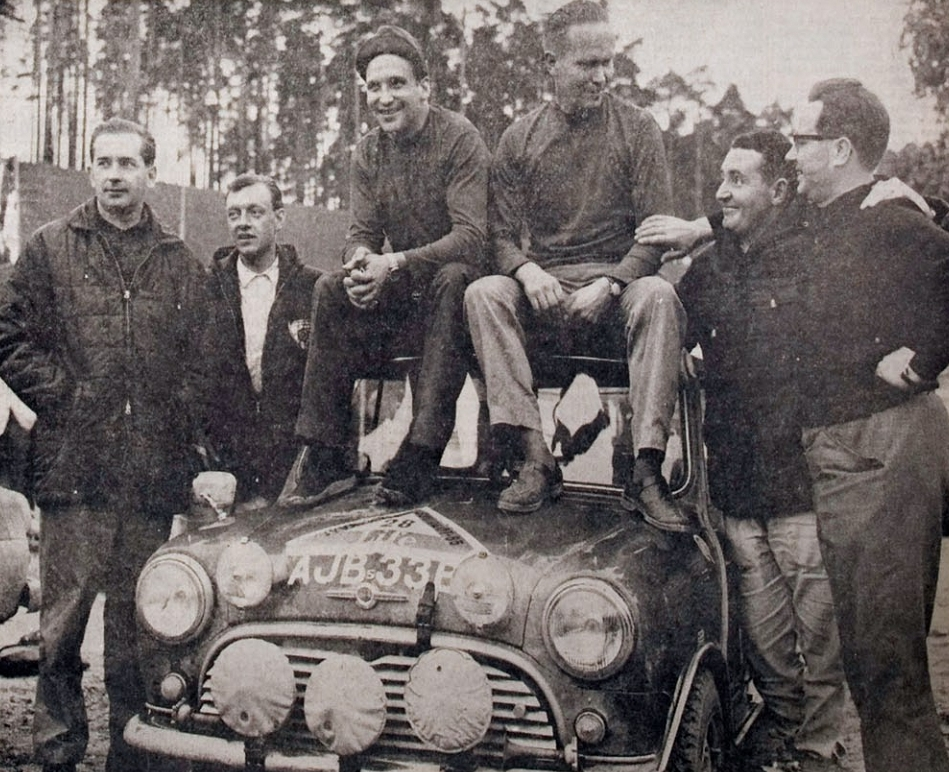 After the 1965 1000 Lakes Rally (Rally Finland), from left to right: co-driver Anssi Järvi and Rauno Aaltonen (second), Timo Mäkinen and co-driver Pekka Keskitalo (winners), and Paddy Hopkirk and co-driver Kauko Ruutsalo (sixth).